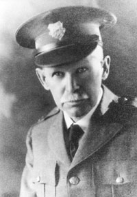 Walter Mestreza founding band director at West Virginia University. He was a band leader during the Spanish-American War who lead the First West Virginia Regiment in Cuba.